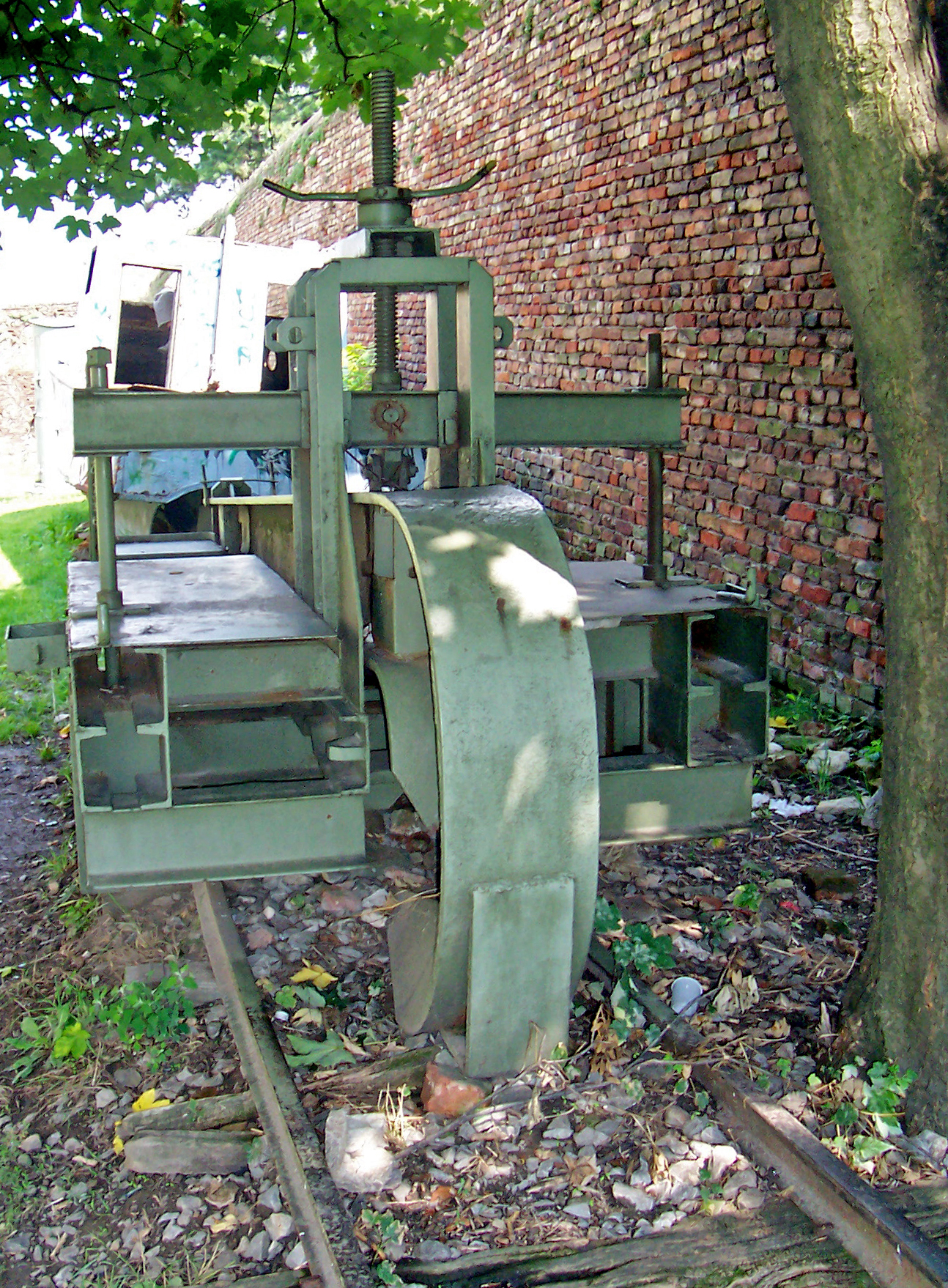 A railroad plough or Schienenwolf ('rail wolf') - (end view). Taken at the Belgrade Military Museum.